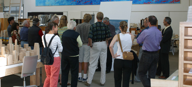 Peter Alexander speaking in front of "Blue", his 48' mural temporarily installed for viewing, before moving to the Walt Disney Concert Hall